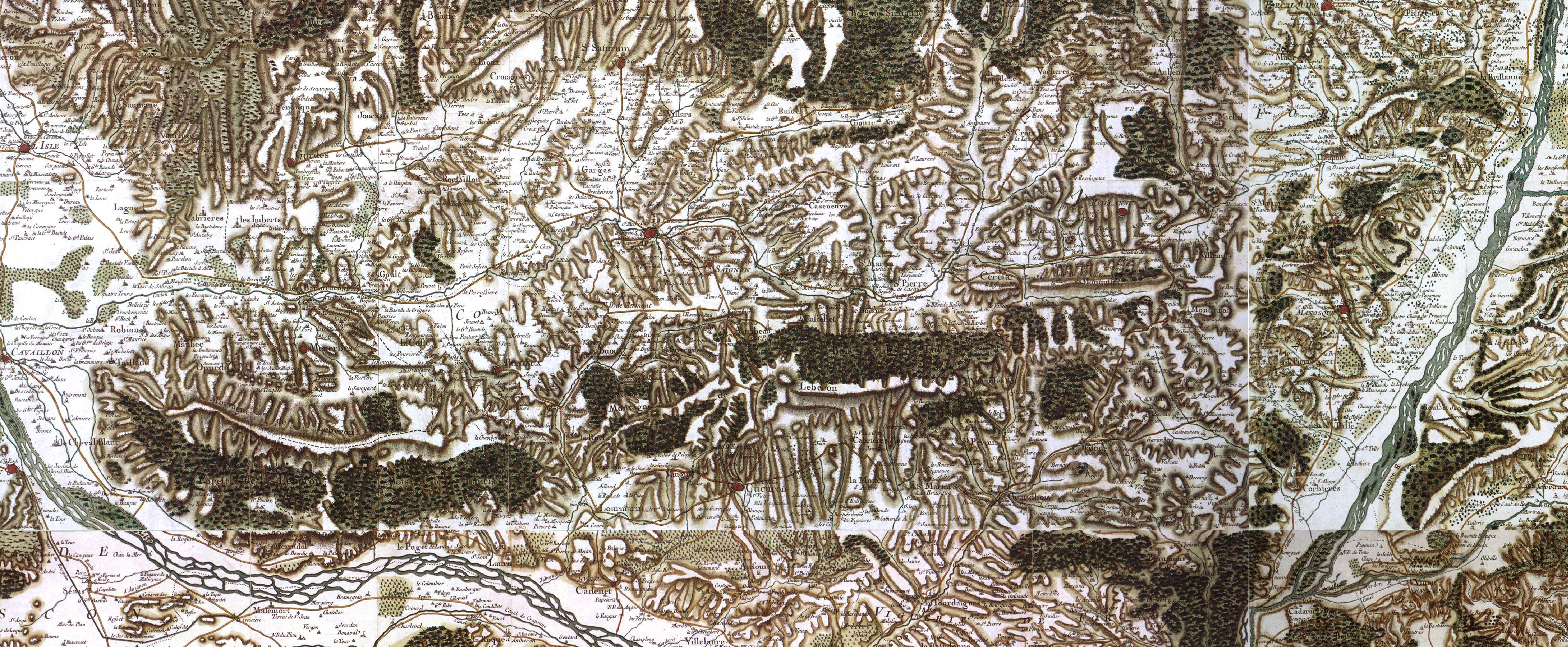 Map of the Luberon Massif in 1776, Comtat Venaissin, France.